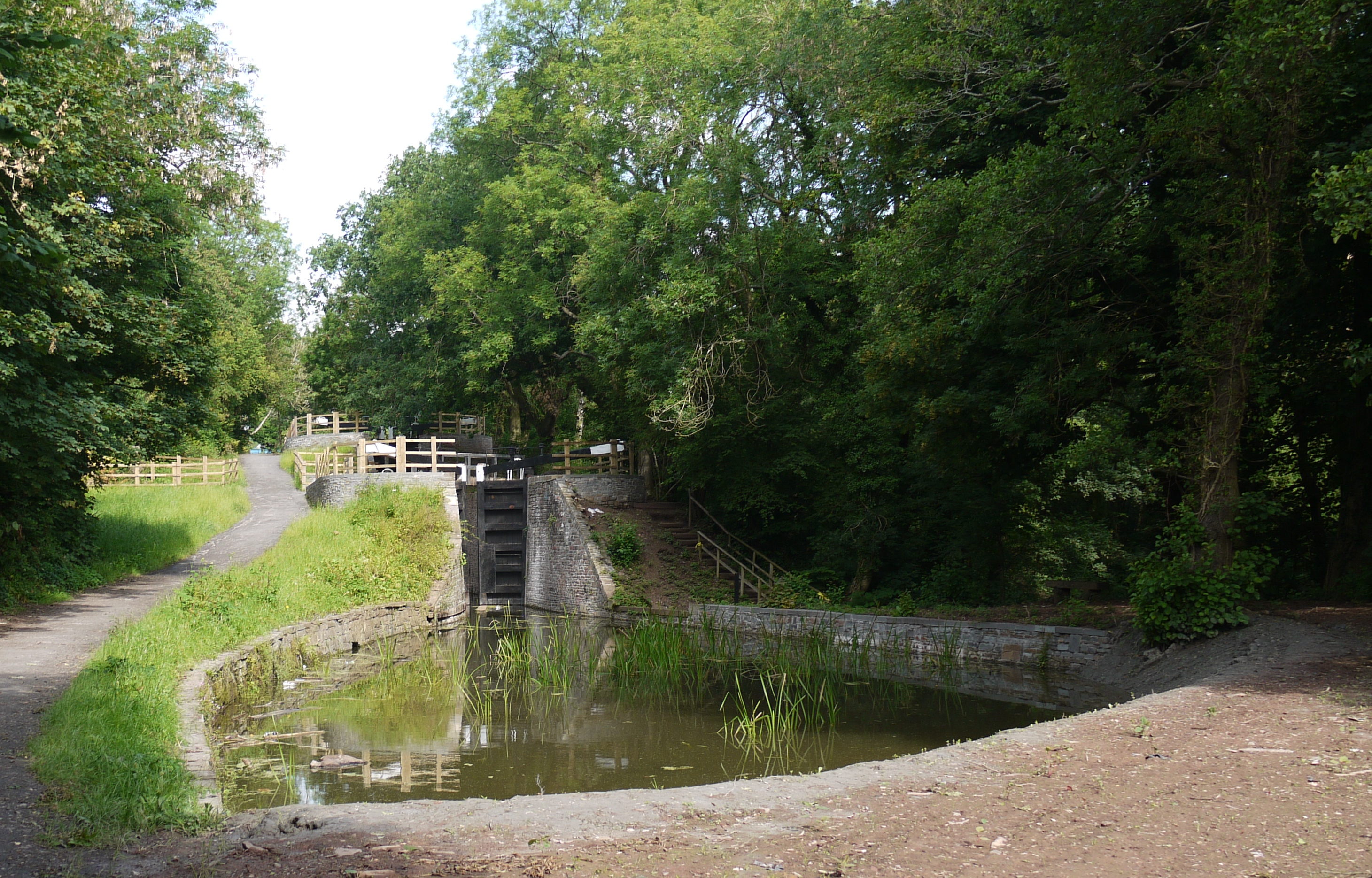 Photo of the lowest of the 3 (4?) restored locks on 14 locks.